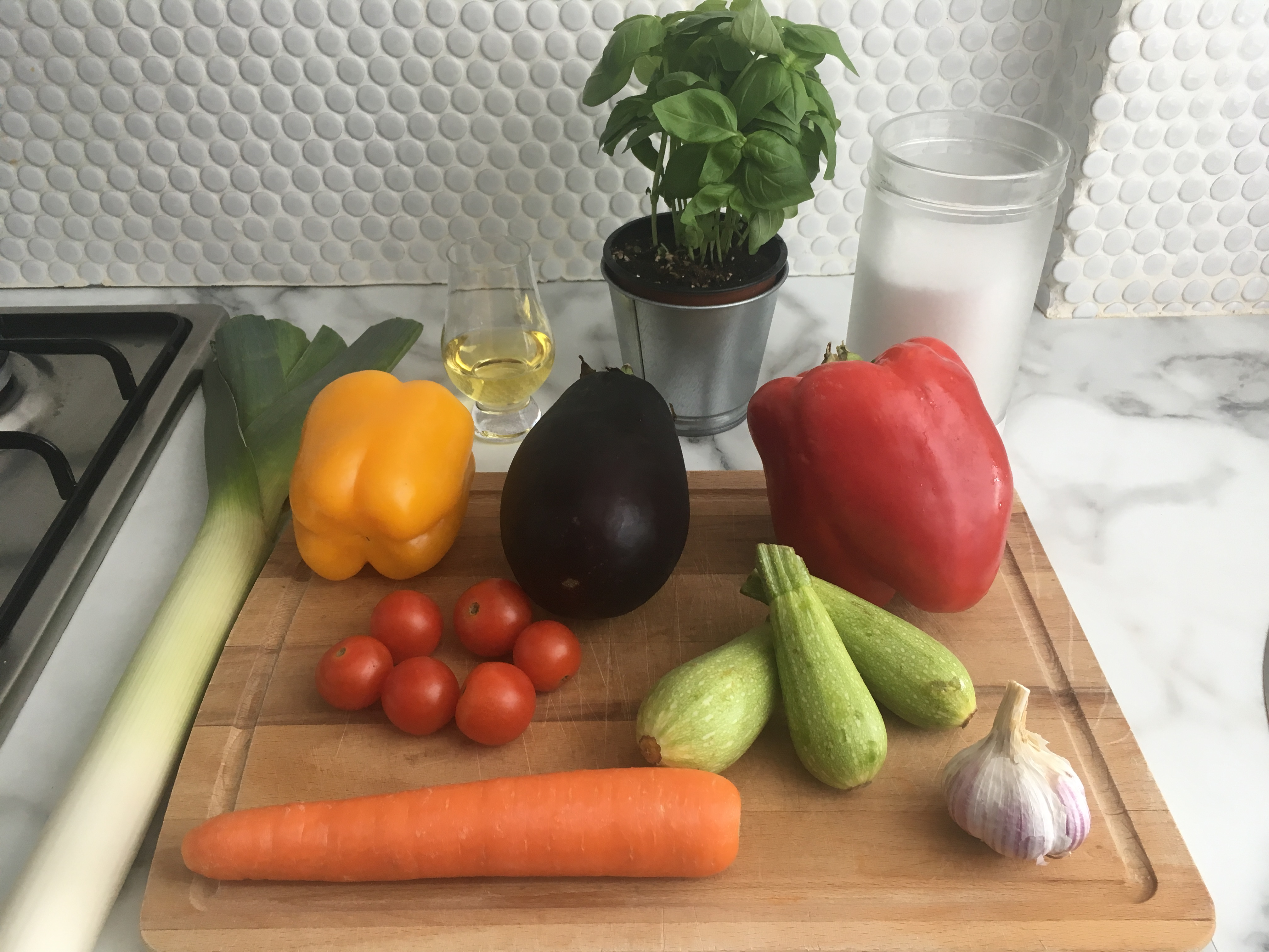 Shows the ingredients used to make the Italian pasta dish "Ortolana"